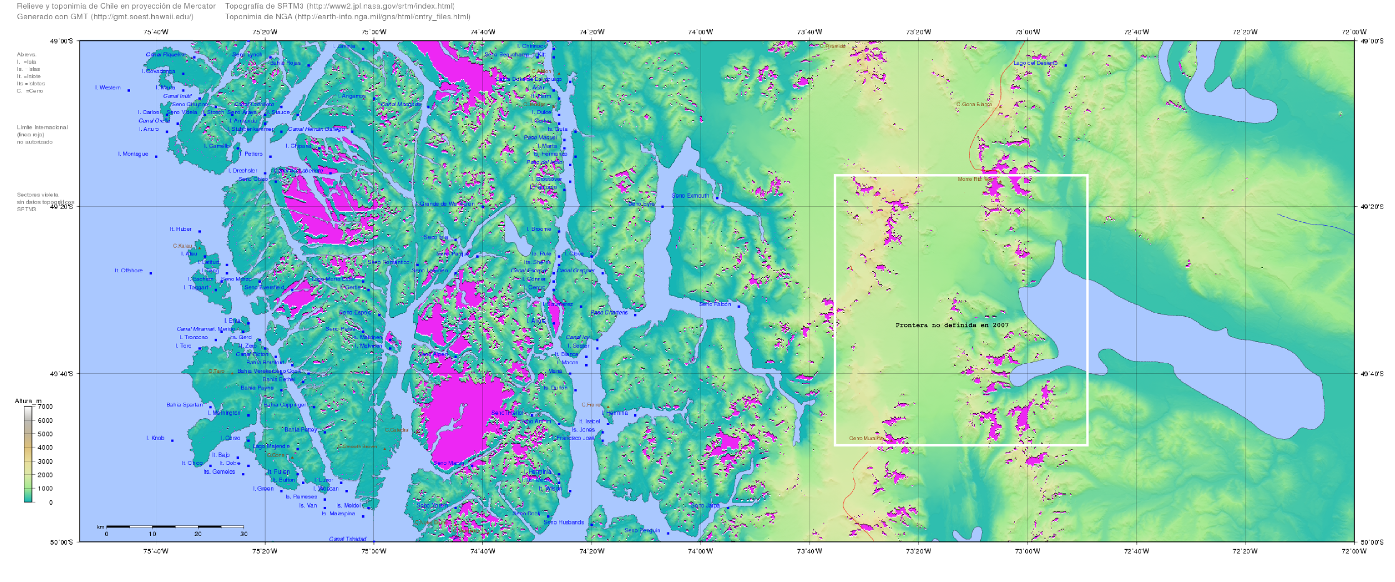 Map of Chile generated with GMT ( topography from SRTM ftp://e0srp01u.ecs.nasa.gov/srtm/version2/SRTM3/ and toponymy from